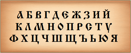 Bulgarian Alphabet